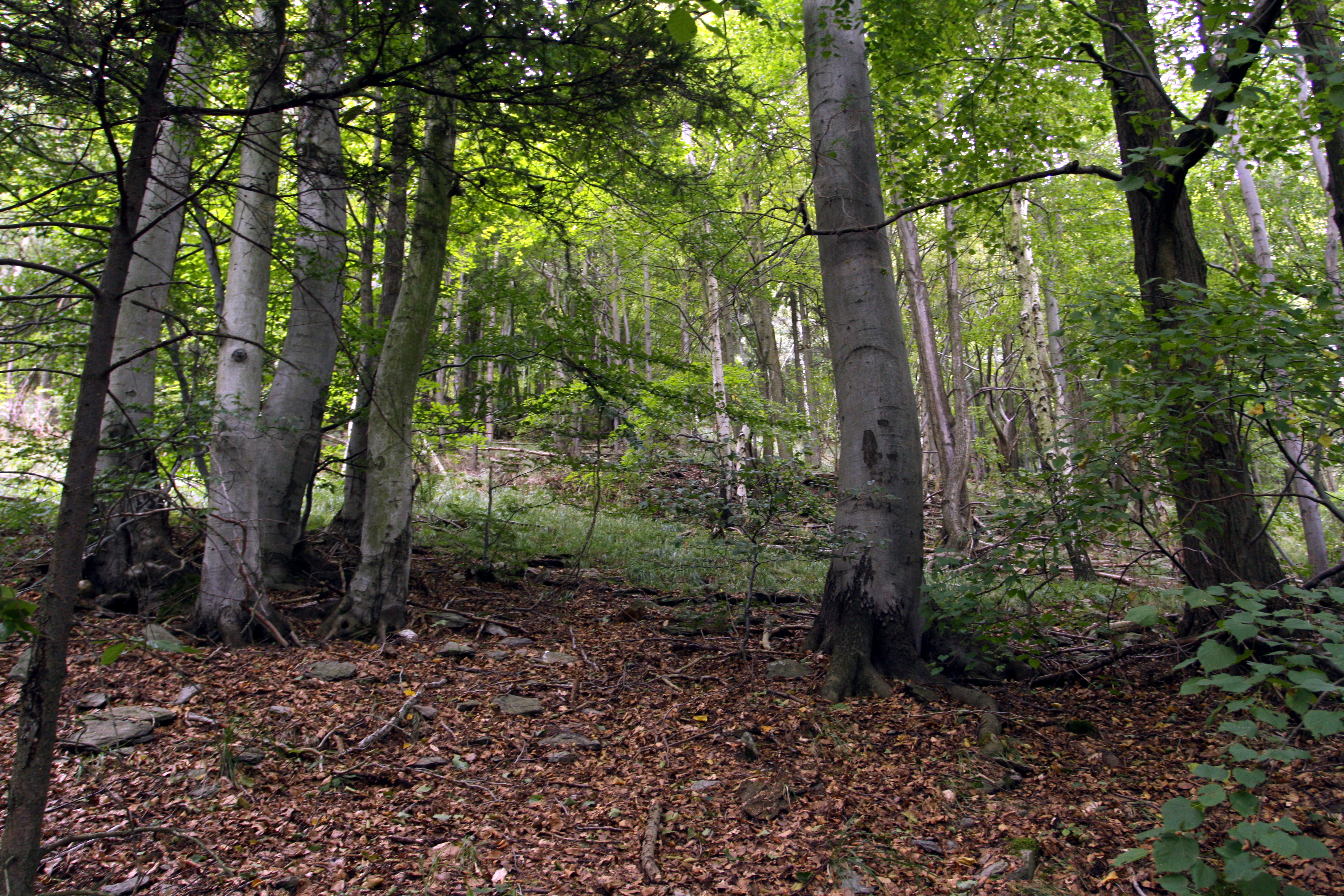 National nature reserve Milešovka close to Milešov u Lovosic village in Litoměřice District, Czech Republic